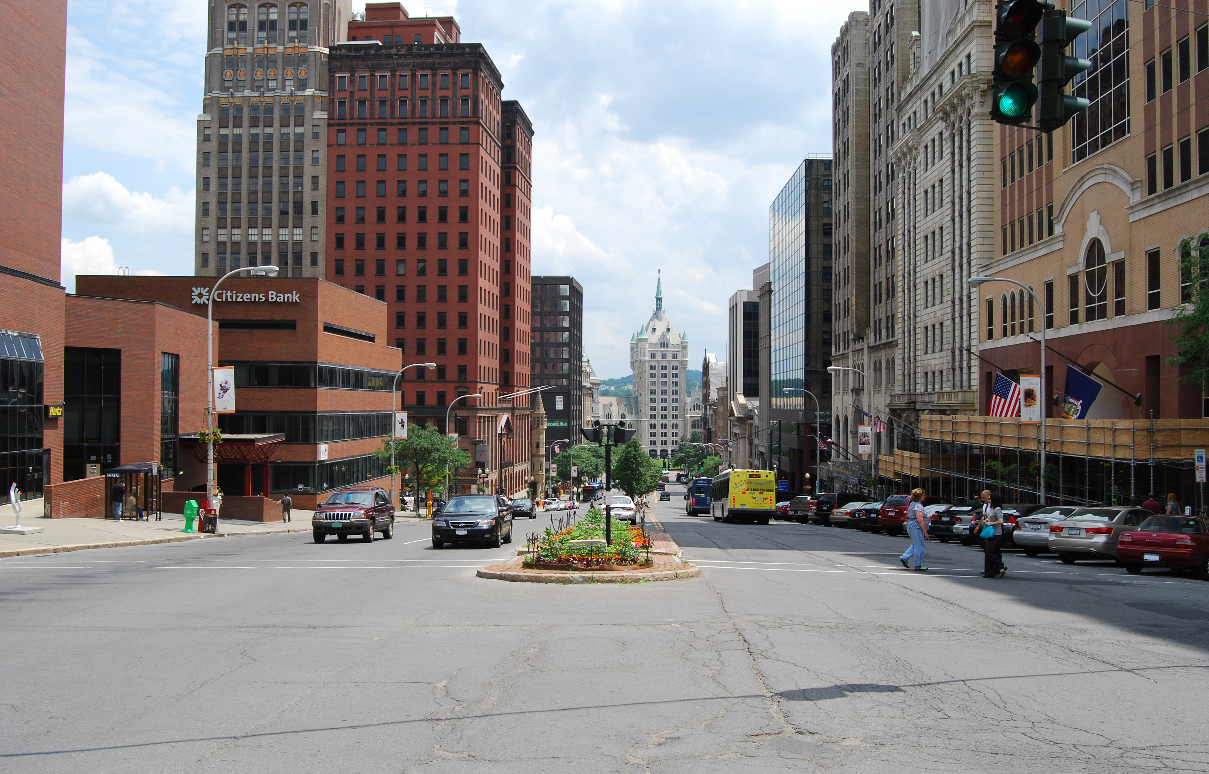 State Street in Albany, New York, United States